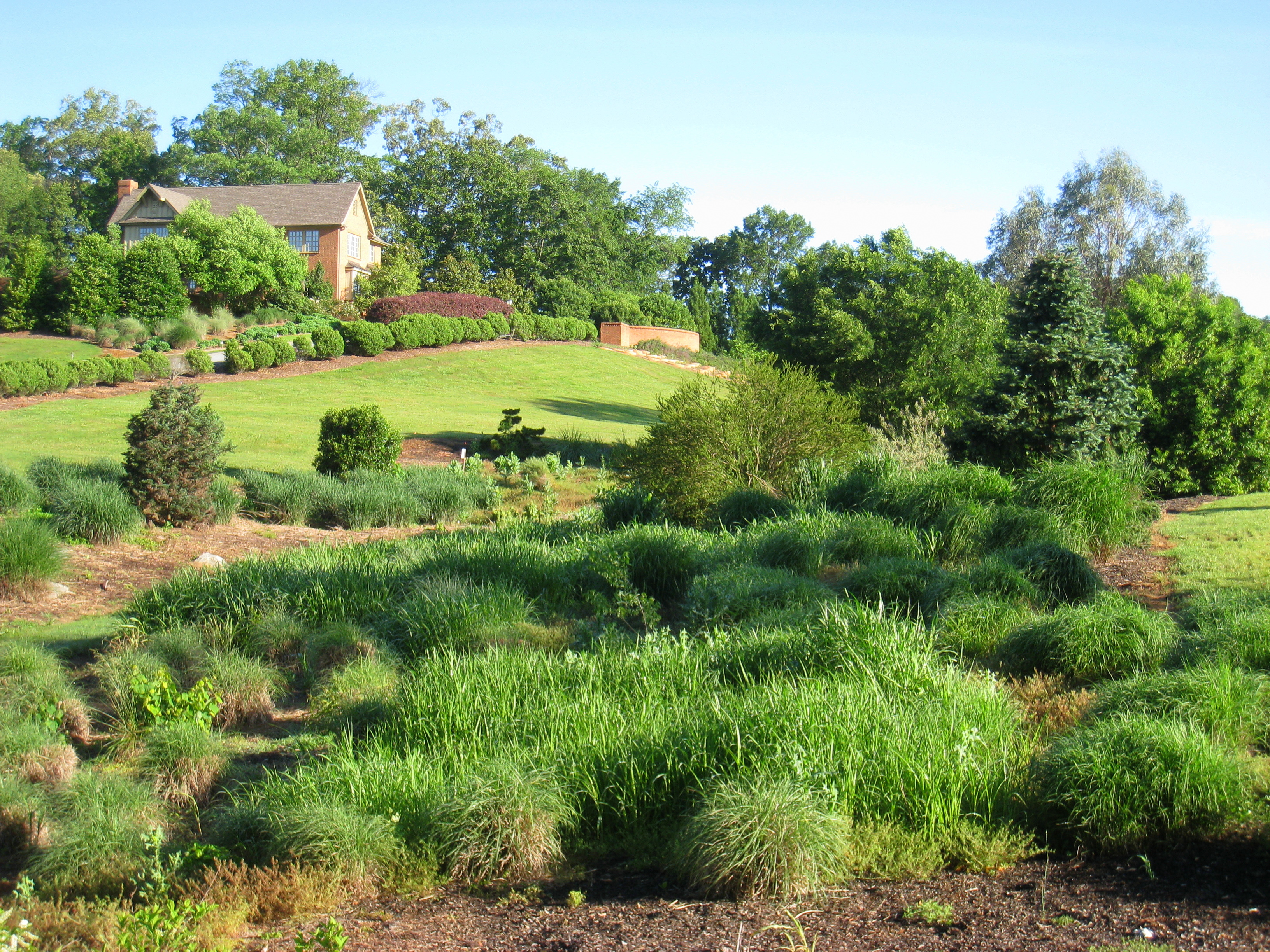 South Carolina Botanical Garden, Clemson, South Carolina, USA. General view.